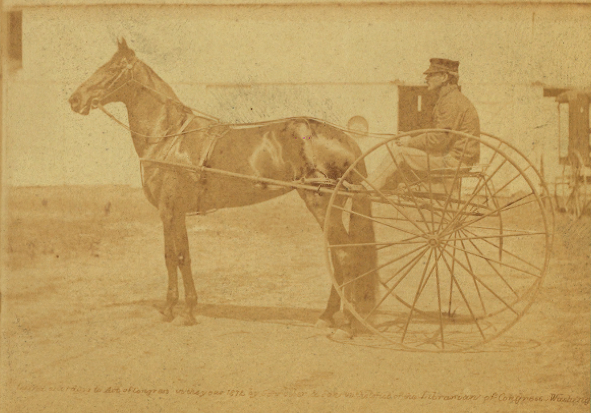 Golsmith Maid, 1872, by Schreiber Son